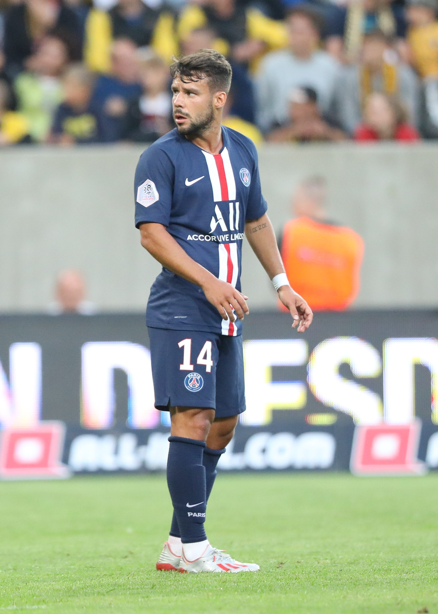 Test game, 17th July 2019: SG Dynamo Dresden vs. Paris Saint-Germain 1:6 (0:3)